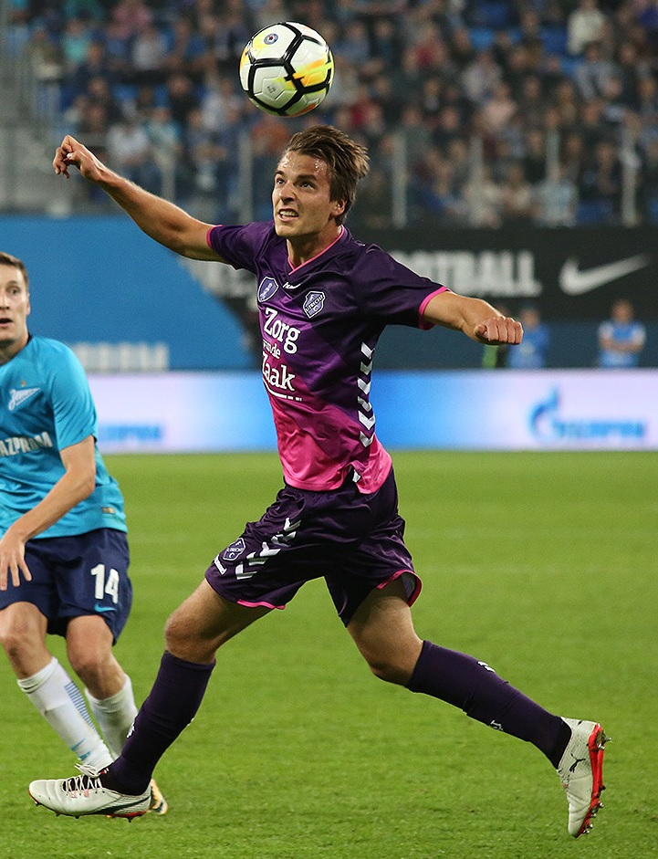 Lukas Görtler with FC Utrecht in a UEFA Europa League game against FC Zenit Saint Petersburg.